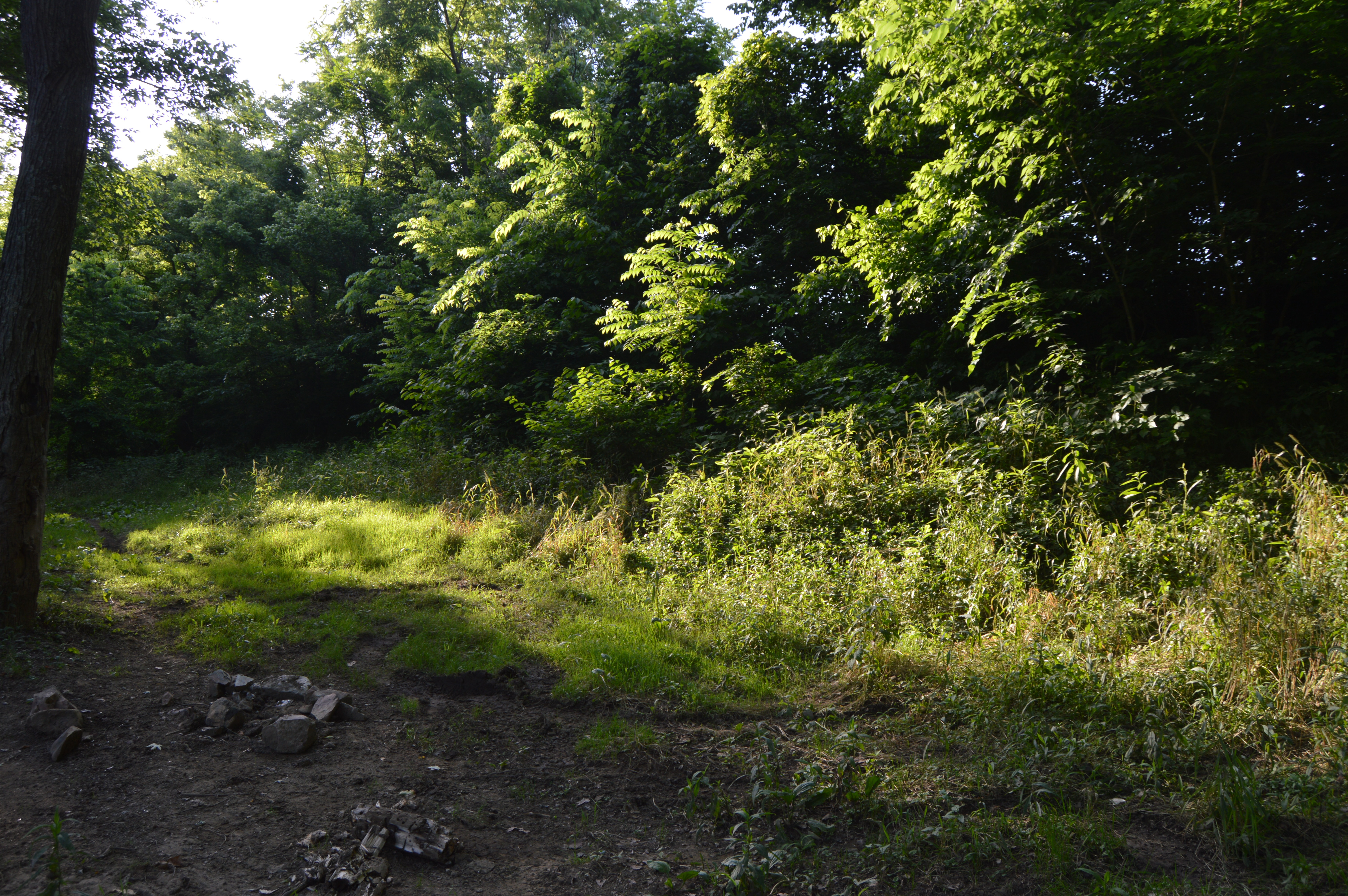 Part of the James River and Kanawha Canal towpath on the left bank of the James River, southwest of Natural Bridge in Botetourt County, Virginia, United States. This section of the towpath is listed on the National Register of Historic Places as part of the Register's designation of the Varney's Falls Dam.